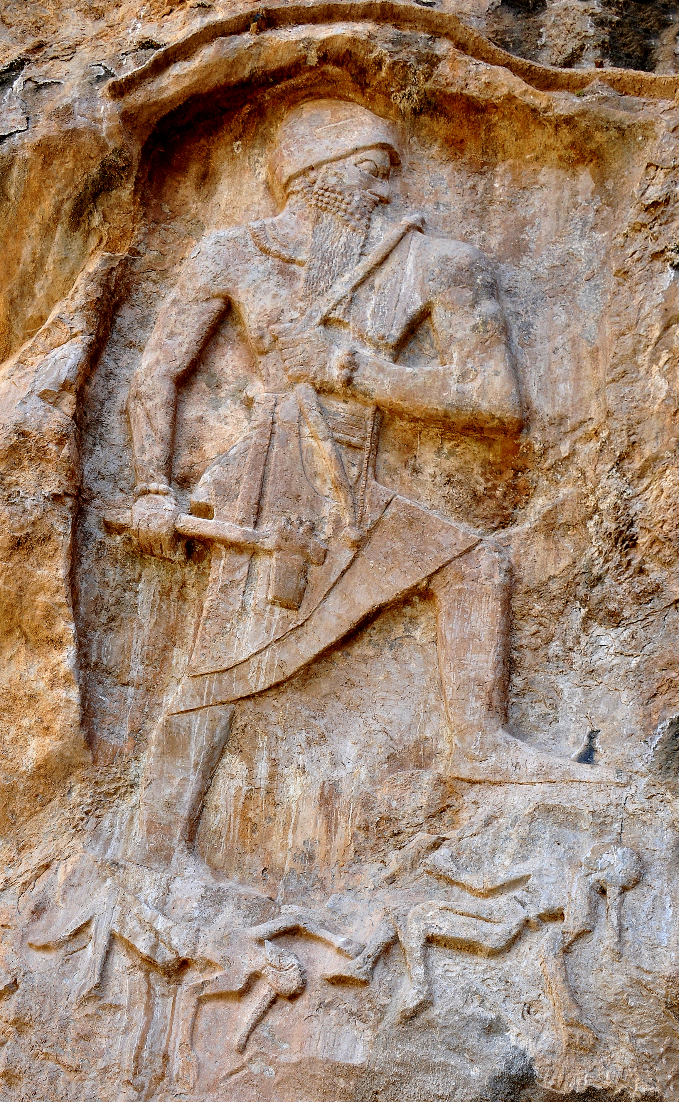 Naram-Sin Rock Relief at Darband-iGawr (extracted)